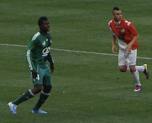 Zouma (Gambardella 2011)